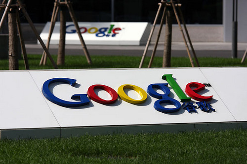 Google China